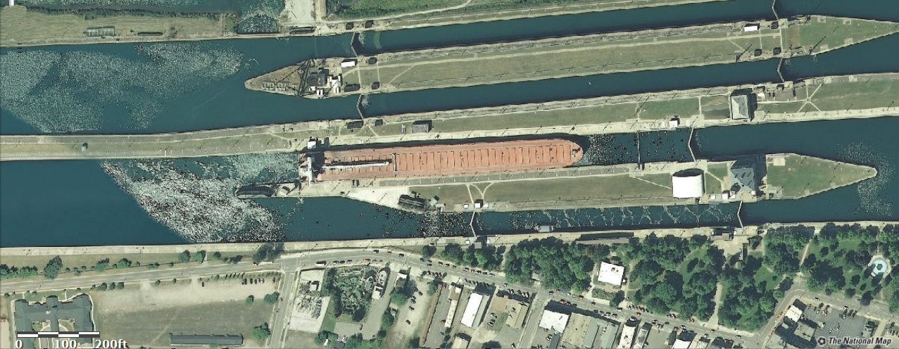 USGS image showing a self-unloading "Laker" boat in the Soo Locks.